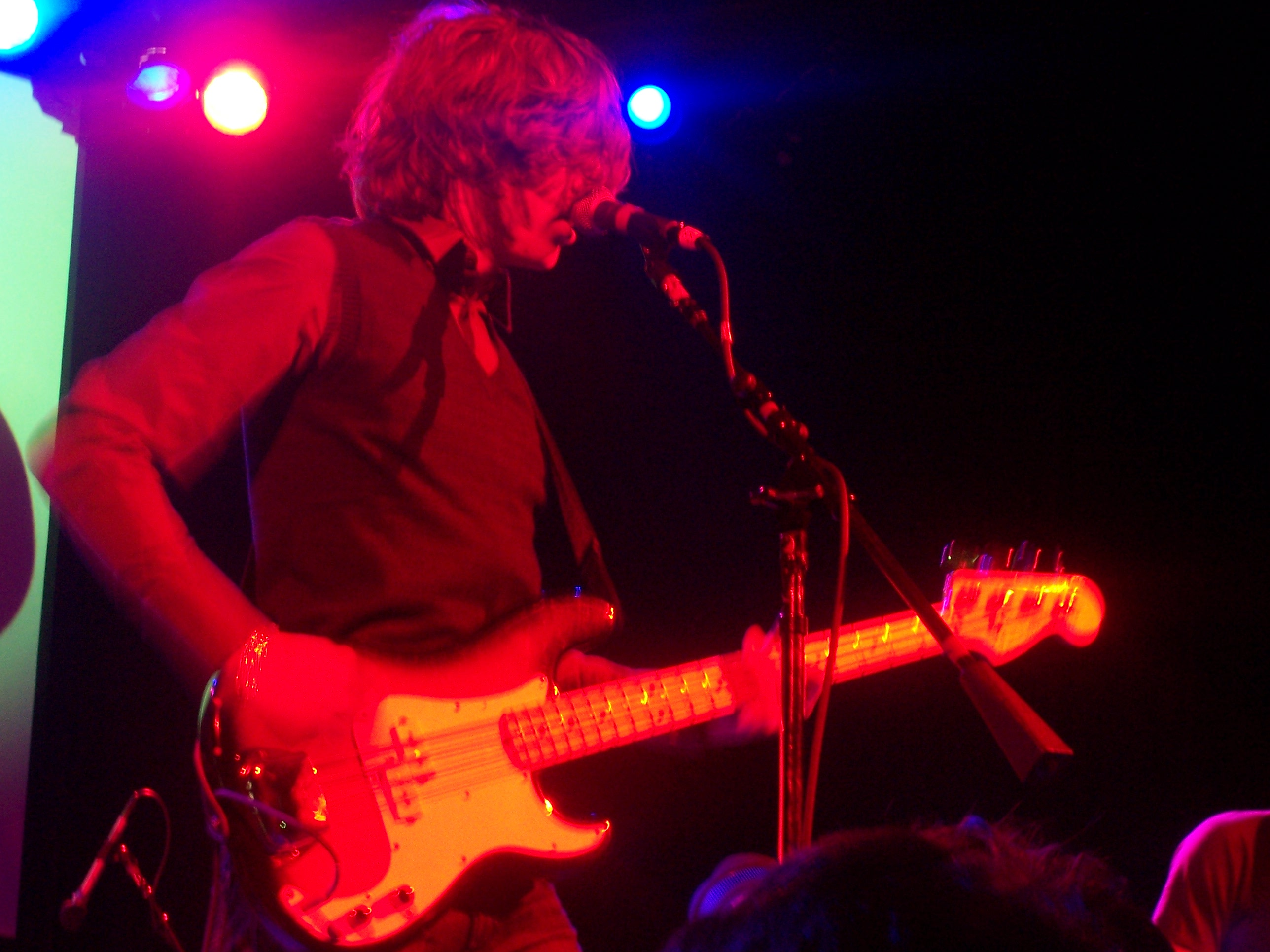 David Monks (Tokyo Police Club) @ Plug Awards 2007